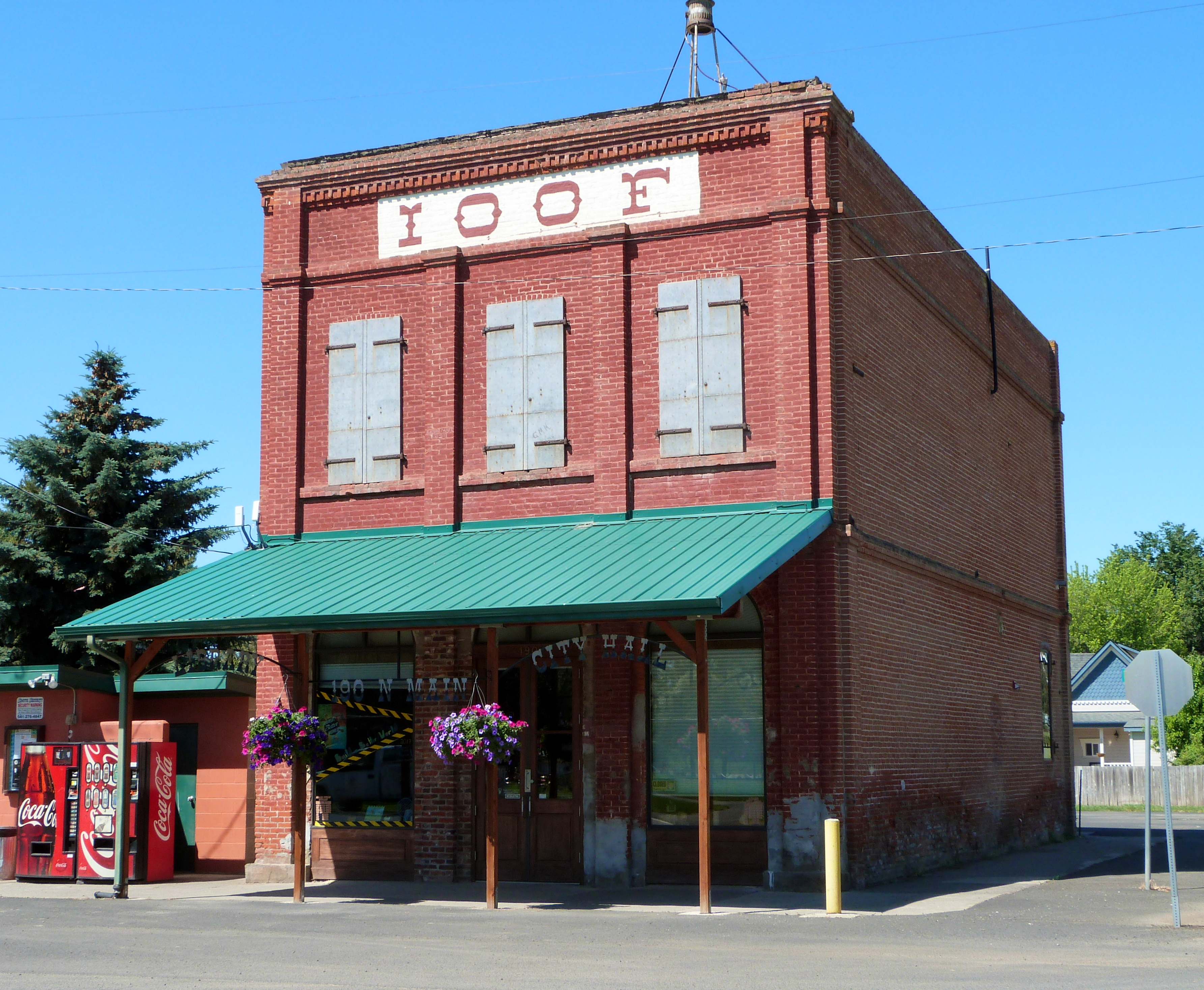 The historic Adams Odd Fellows Hall (built 1886), located at 190 North Main Street in Adams, Oregon, United States, is listed on the US National Register of Historic Places. As of the photo date, the building is in use as Adams' city hall and public library.